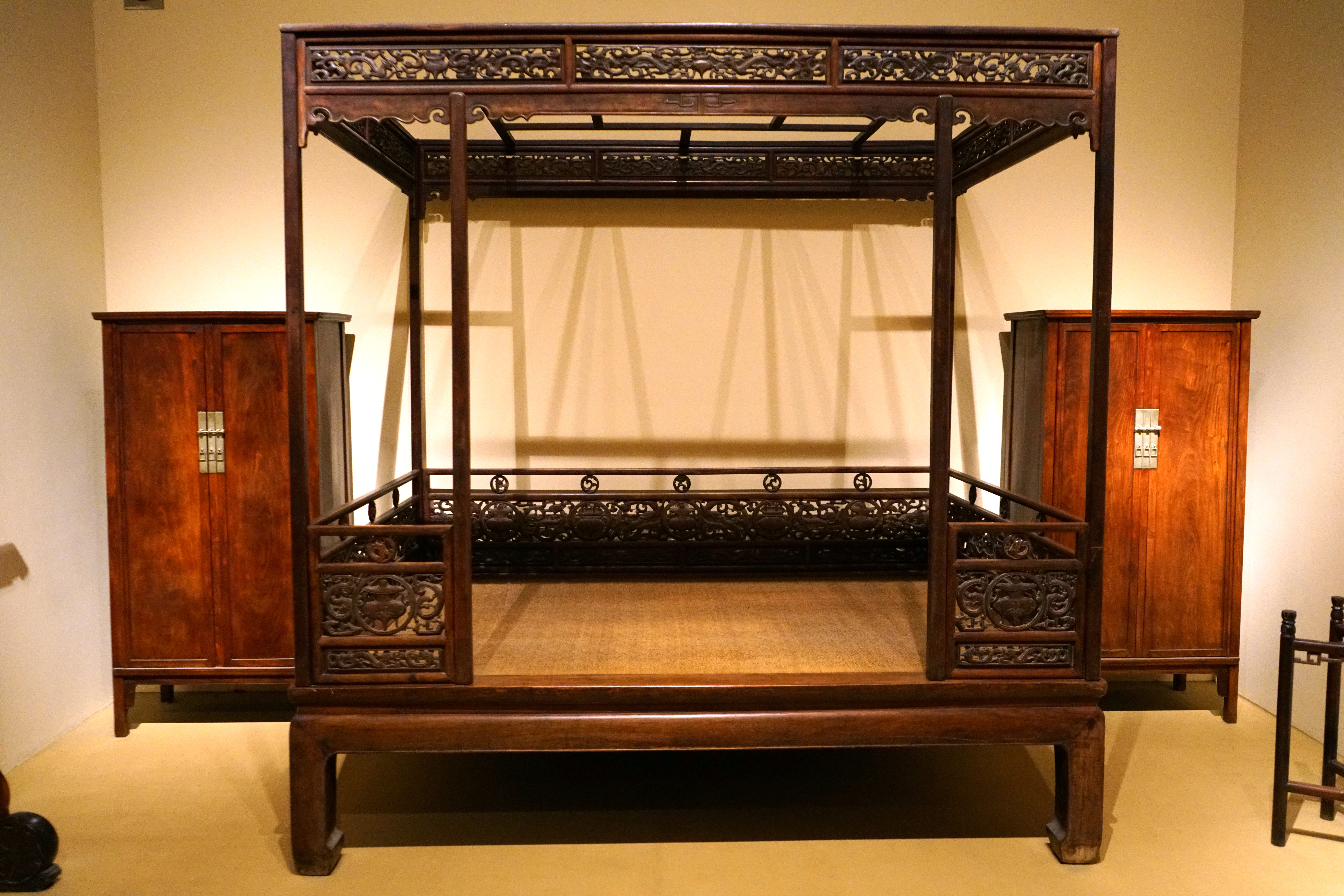 Huanghuali Wood Canopy Bed Sculpted with Dragons and Phoenixes. Huanghuali Wood Tapered Cabinets (Pair).